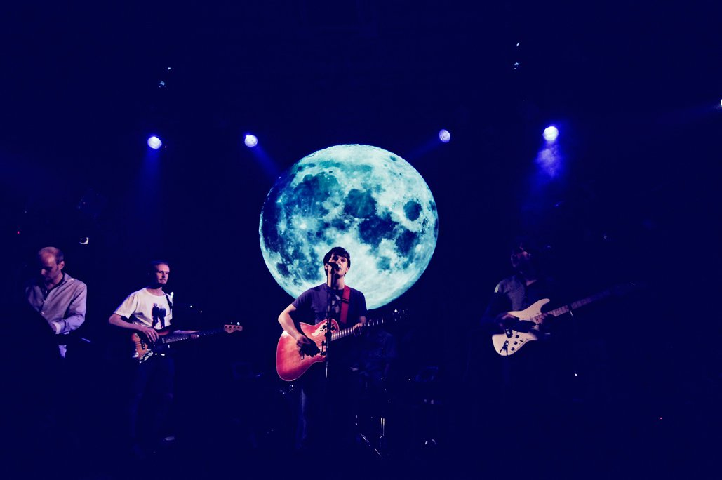 The Watanabes playing live at Moon Romantic in Aoyama, Tokyo. July 2011